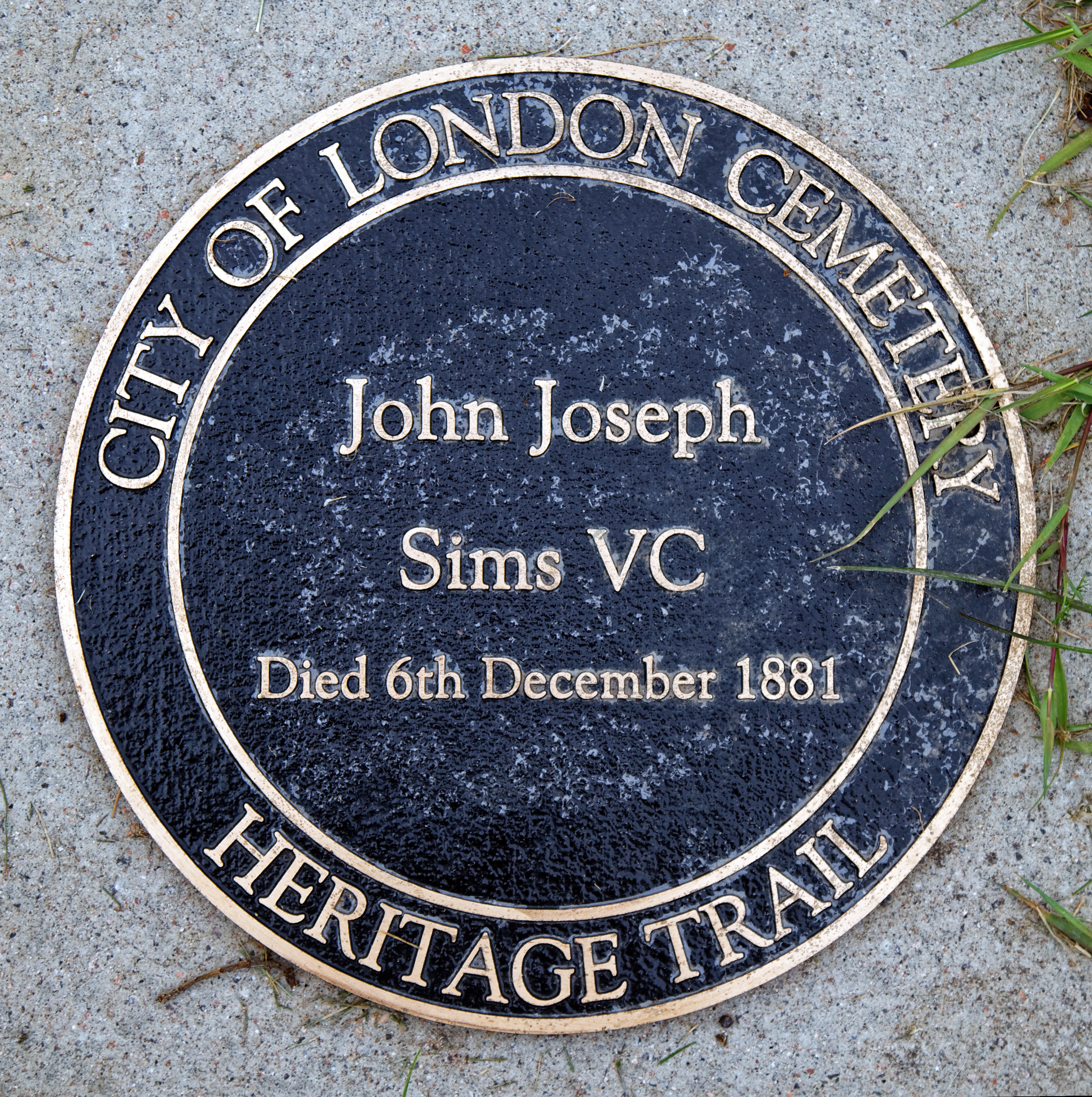 The grave marker for John Joseph Sims (1835 – 1881), who received the VC at the 1855 Siege of Sevastopol, on Gardens way in the Memorial Gardens to the north-east of the Traditional Crematorium in the City of London Cemetery, Aldersbrook Road, Newham, England.Mobile device view: Wikimedia (June 2020) makes it difficult to immediately view photo groups related to this image. To see its most relevant allied photos, click on City of London Cemetery and Crematorium, and this uploader's Photos. You can add a click-through 'categories' button to the very bottom of photo-pages you view by going to settings... three-bar icon top left.Desktop view: Wikimedia (June 2020) makes it difficult to immediately view the helpful category links where you can find images related to this one in a variety of ways; for these go to the very bottom of the page.This image is one of a series of date and/or subject allied consecutive photographs kept in progression or location by file name number and/or time marking.Camera: Canon EOS 6D Mark II with Canon EF 24-105mm F4L IS USM lens.Software: File lens-corrected, optimized, perhaps cropped, with DxO OpticsPro Elite, and likely further optimized with Adobe Photoshop CS2.